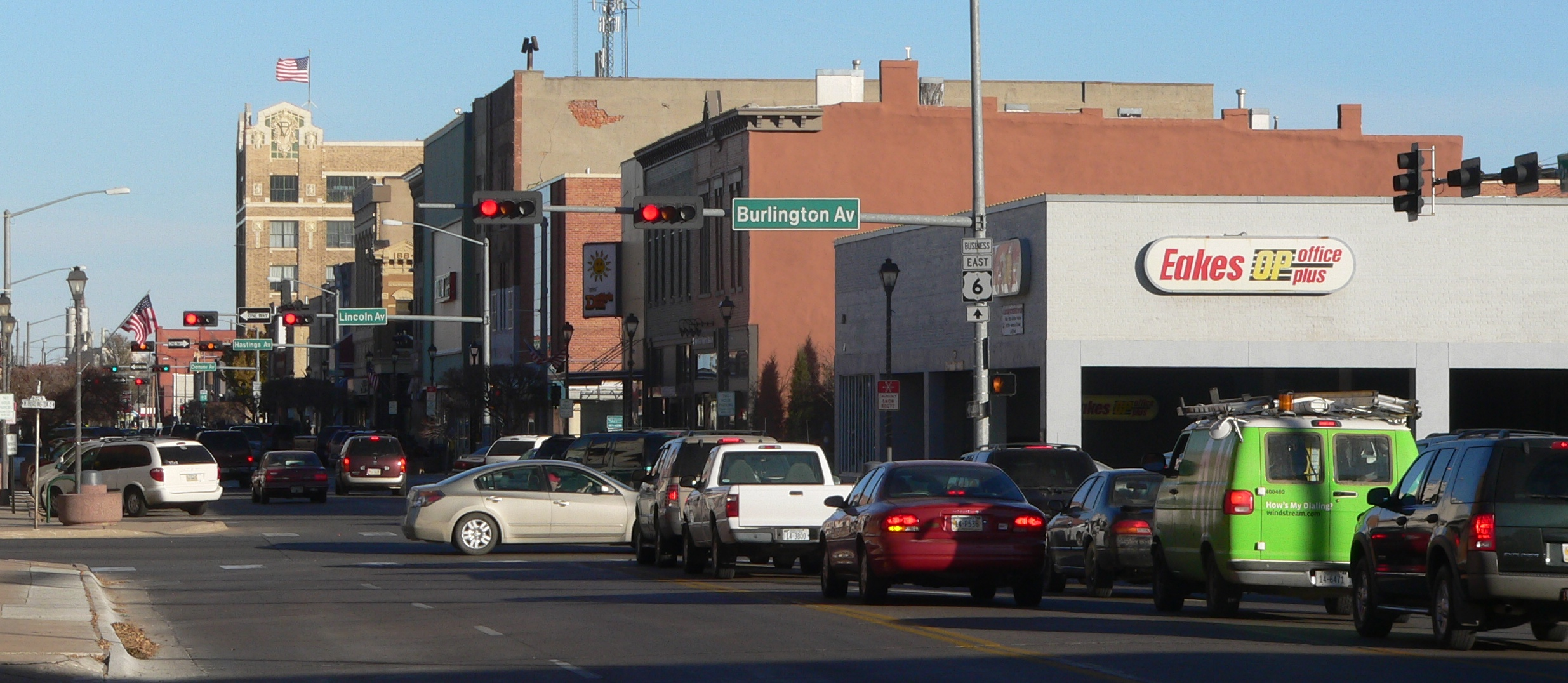 Downtown Hastings, Nebraska: south side of 2nd Street. Camera is facing east-southeast from about Lexington Avenue.